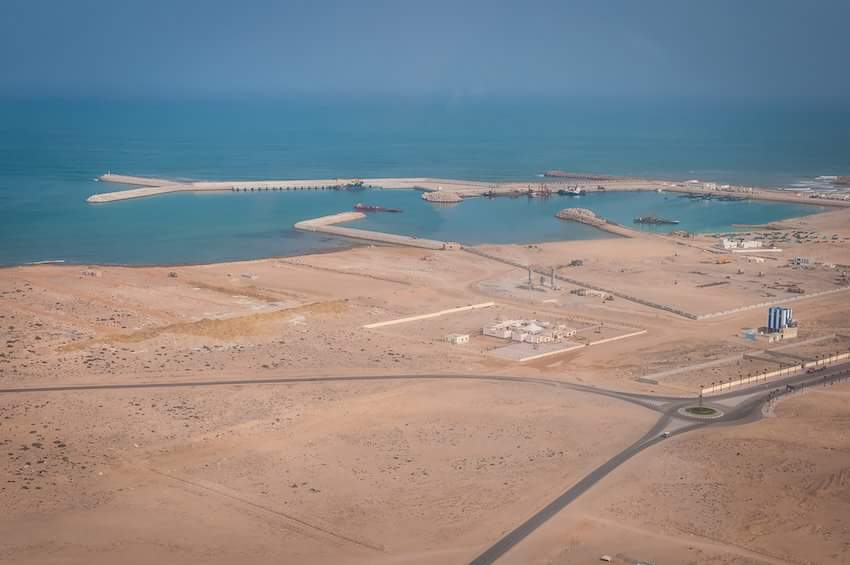 Tarfaya Port 2016